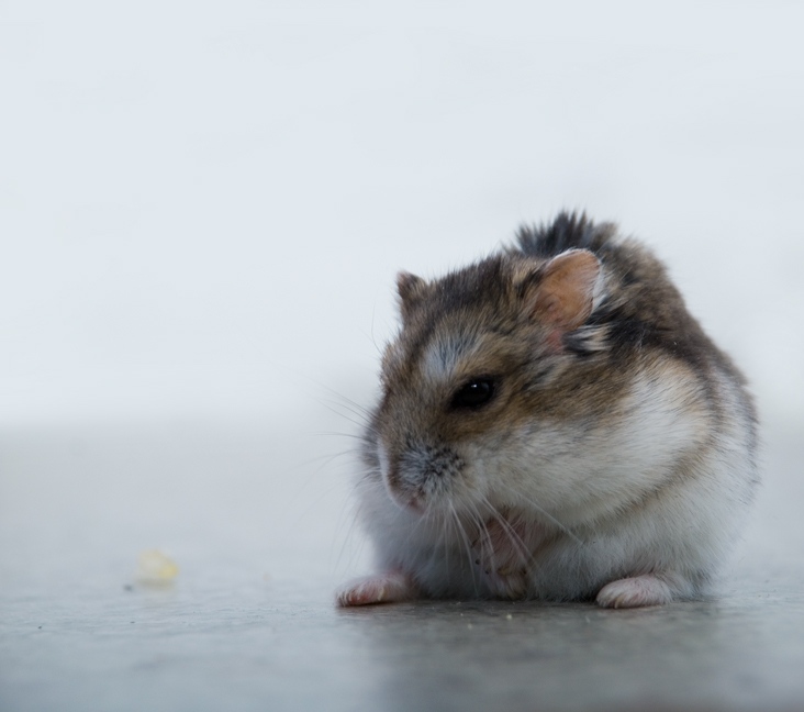 Venäjänkääpiöhamsteri